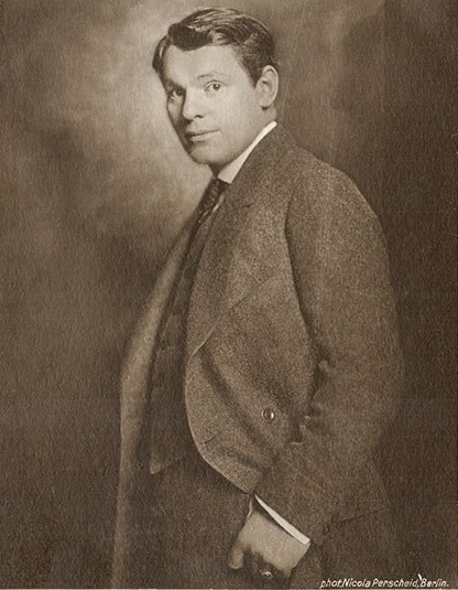 Portrait of Austrian actor Alexander Moissi (1879–1935) by Nicola Perscheid, Berlin